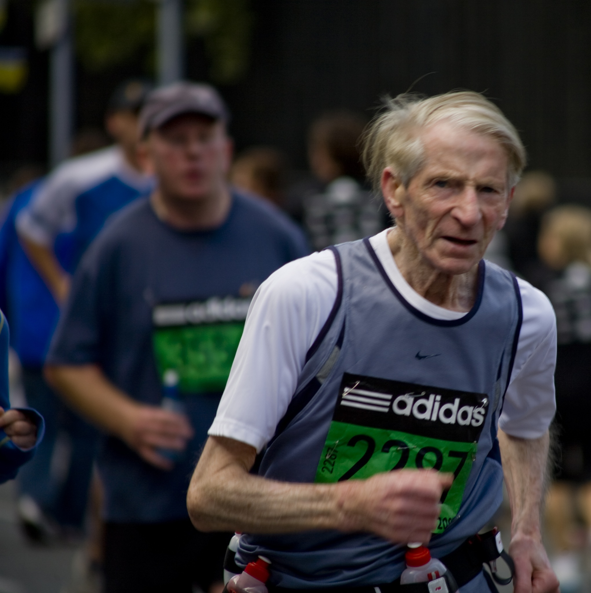 2007 Dublin City Marathon (Ireland)